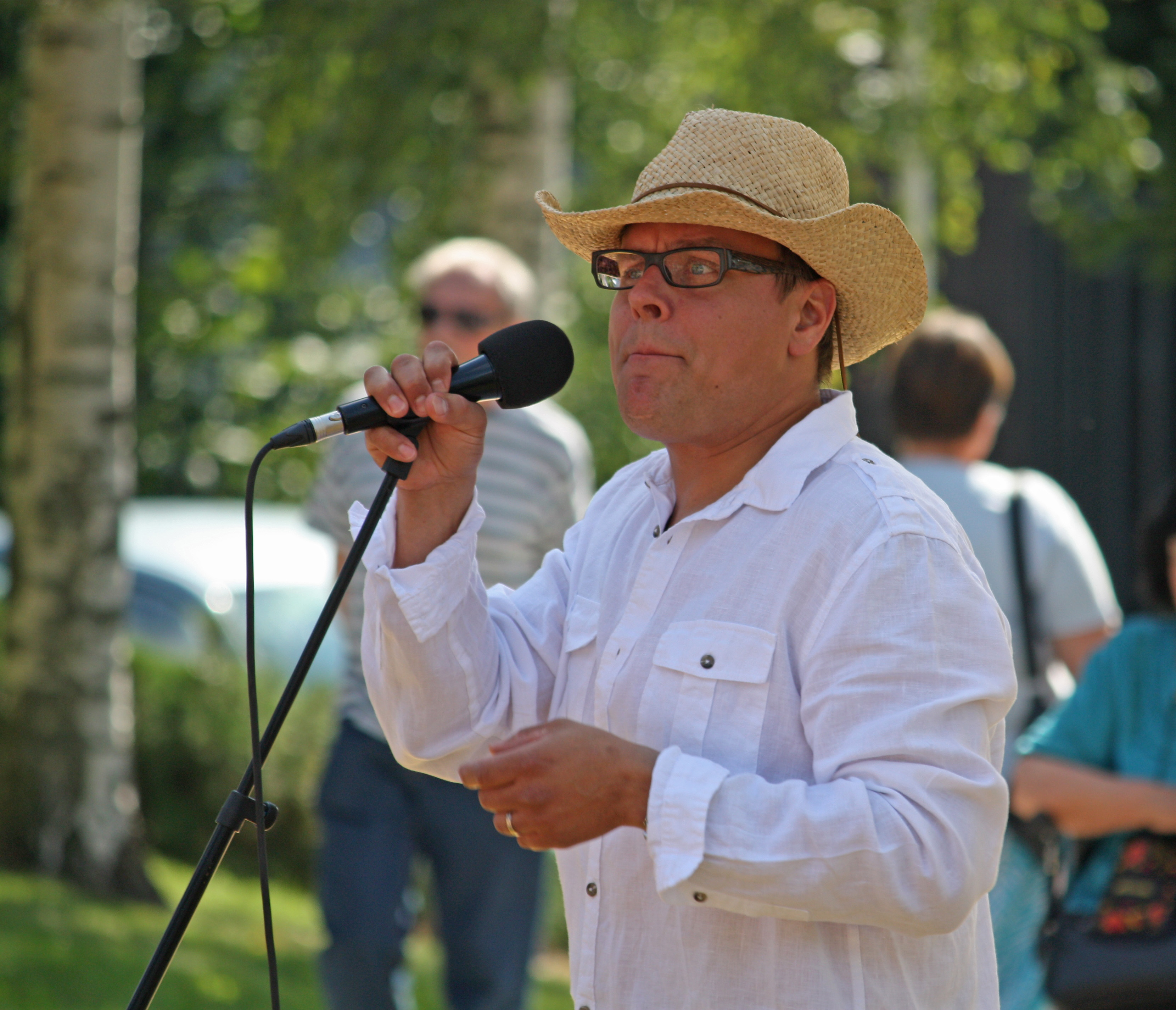 The band Uusi Energia and Mikko Kartano were perfoming on Aurinkomäki Stage during The Garlic Festival 2012.